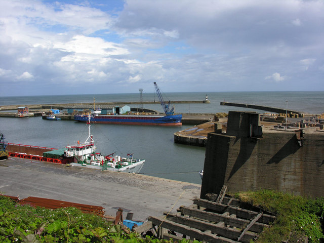 Seaham Harbour View across the harbour with remains of coal loading staithes on the right.